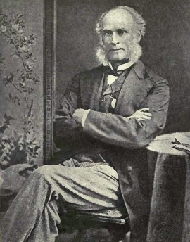 Edmund Allen Meredith Title: McGill and its story, 1821-1921 Creator: Macmillan, Cyrus, 1880-1953 Publisher: London : John Lane ; New York : John Lane ; Toronto : Canadian Branch Date: 1921 Possible Copyright Status: NOT_IN_COPYRIGHT